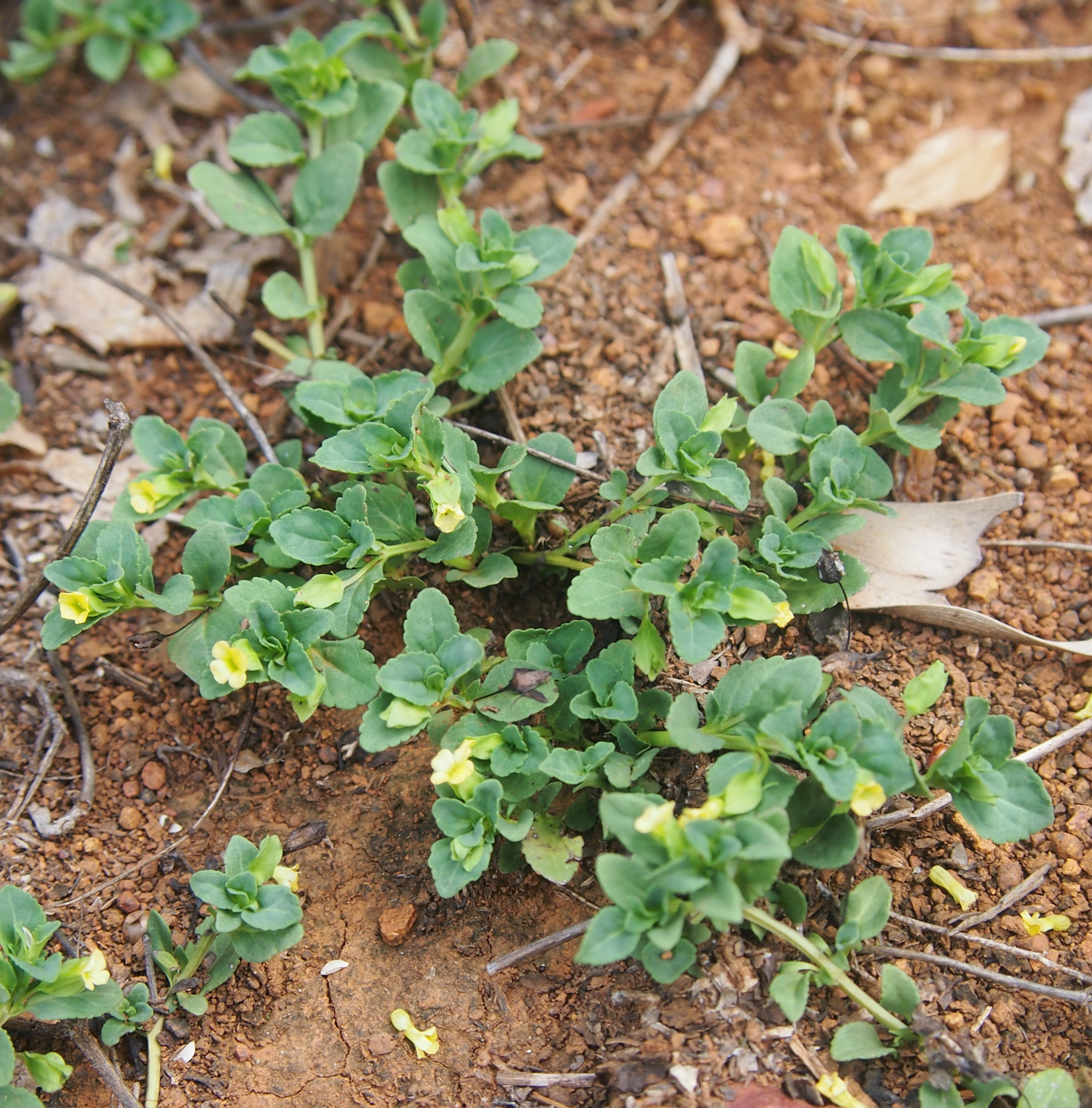 'Mecardonia procumbens habit